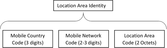 Location Area Identity